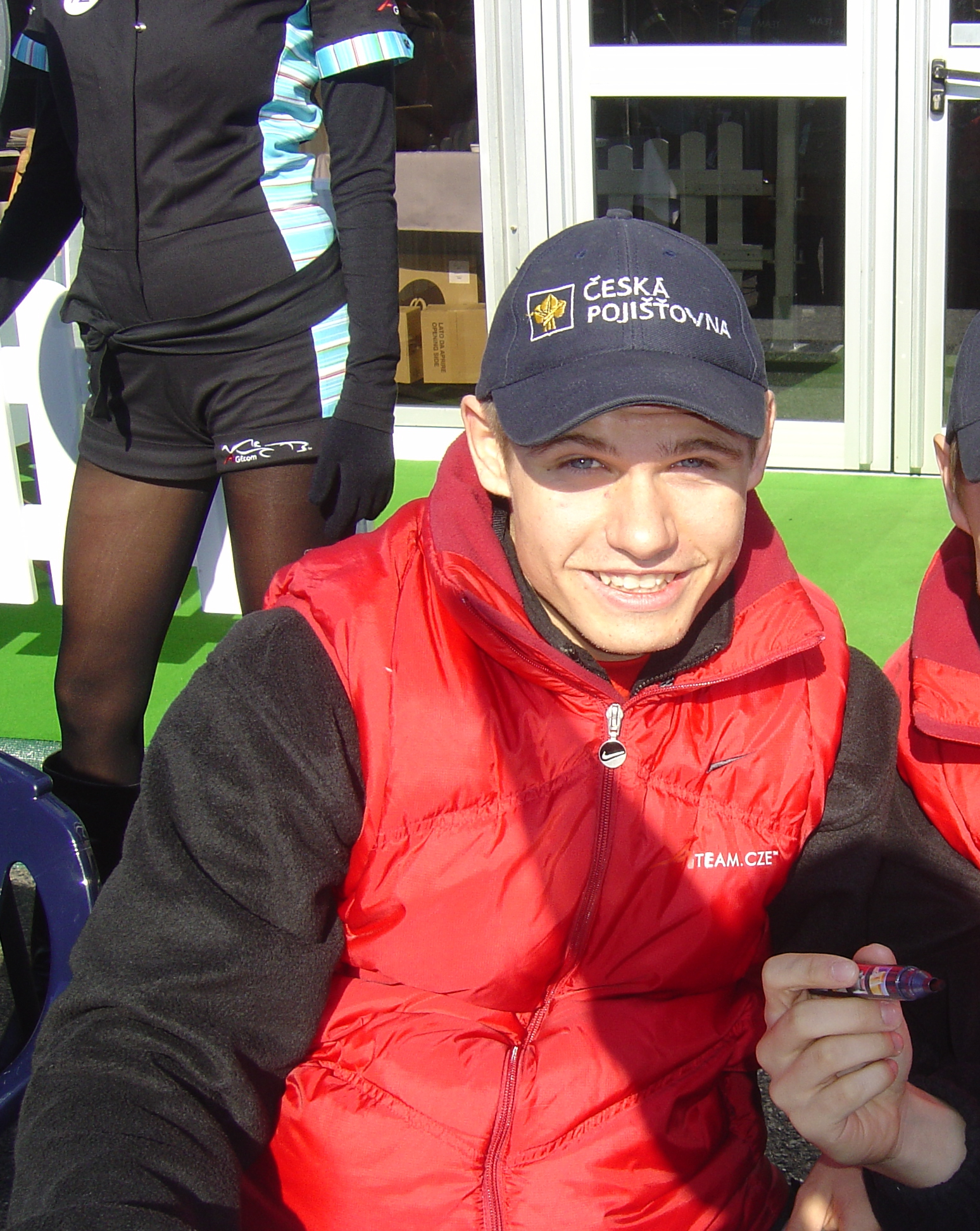 Erik Janiš: the photo was taken during 2007's A1GP race weekend at Brno